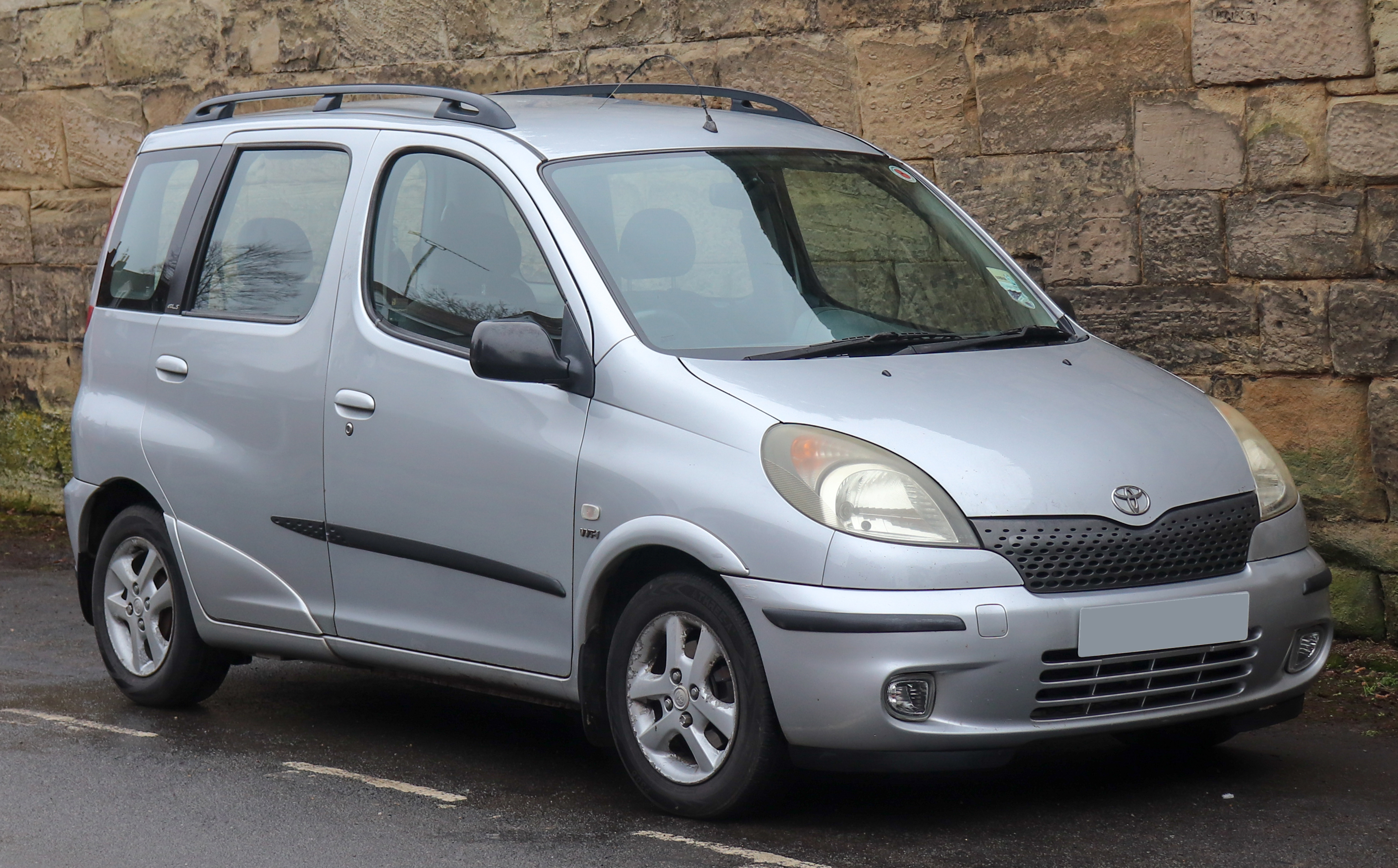 2001 Toyota Yaris Verso GLS 1.3 Front Taken in Warwick